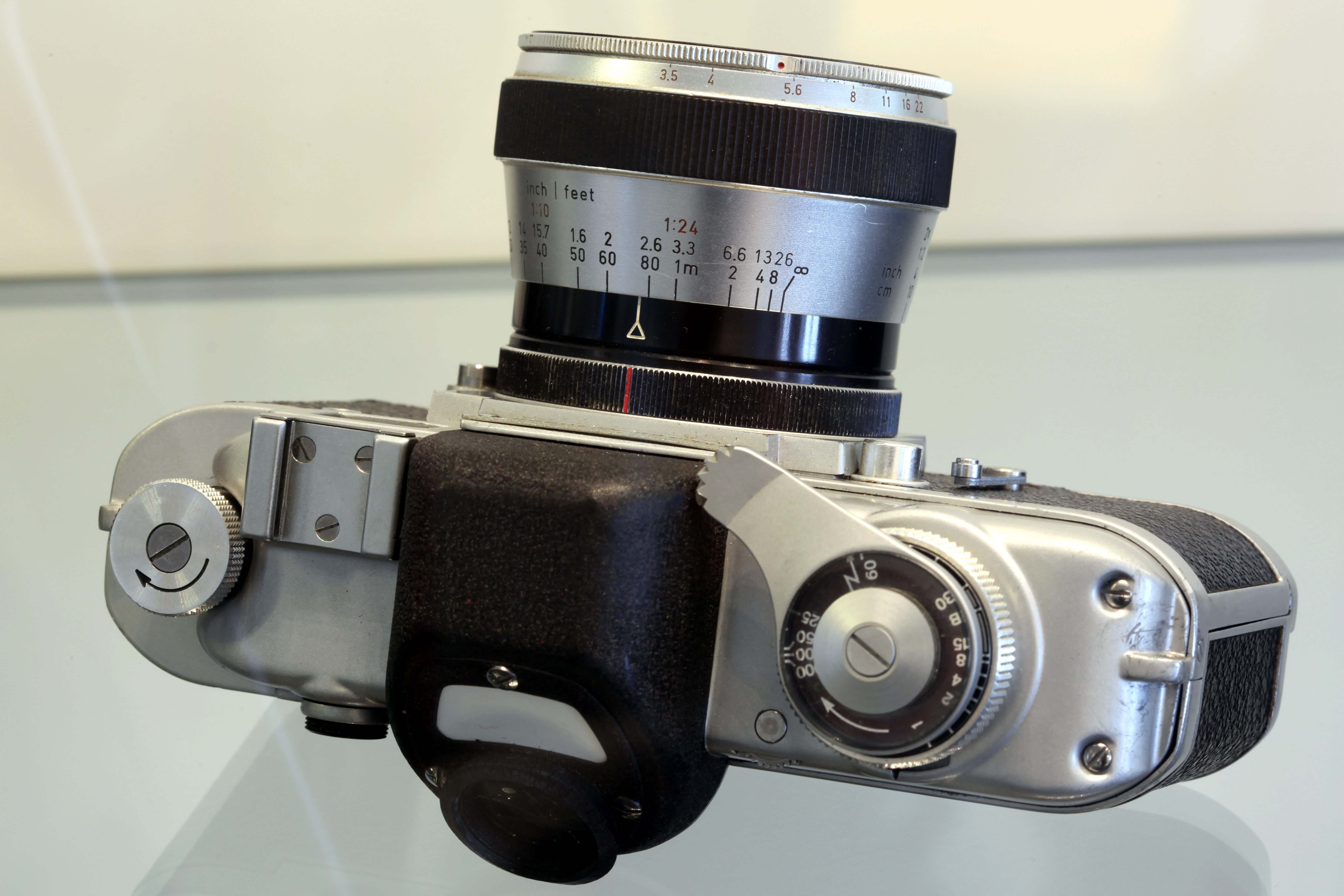 Alpa camera. On display at Vevey photography museum.